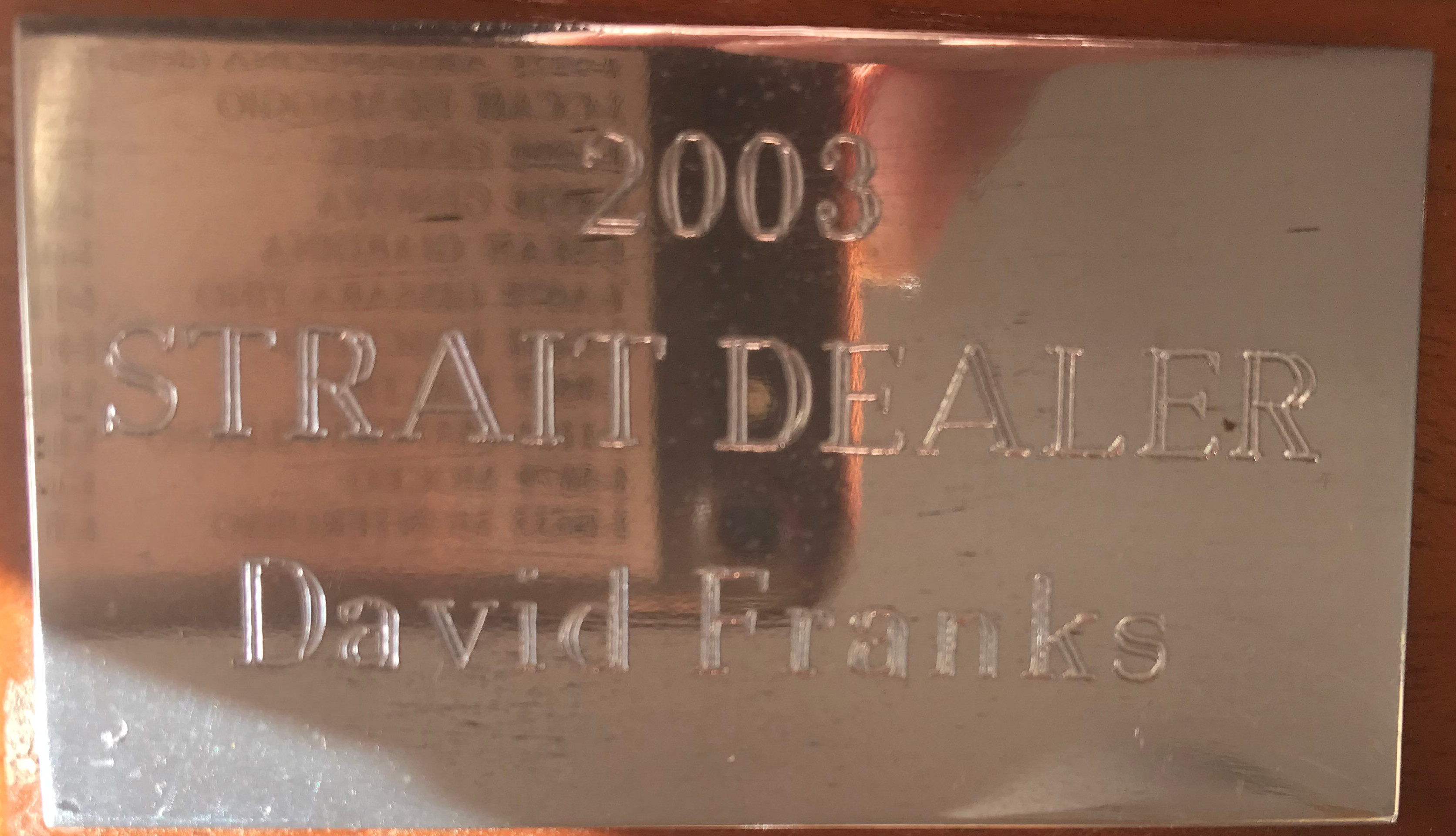 Patch on the Trophy